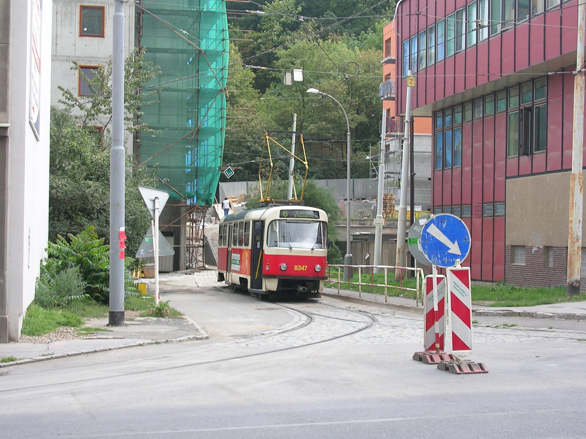 Tram stop Laurová, Prague-Smíchov.